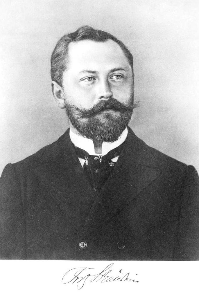 German zoologist Fritz Schaudinn (1871-1906), co-discoverer of Spirochaeta pallida, the causative agent of syphilis